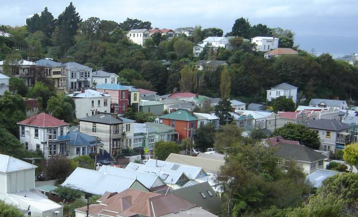 Photograph of the Aro Valley in Wellington, New Zealand. Taken by me. Silenceisfoo 09:48, 4 Apr 2005 (UTC)